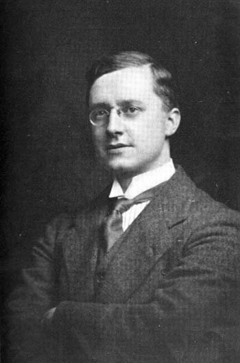 Photograph of John Ramsbottom (1885-1974), British mycologist